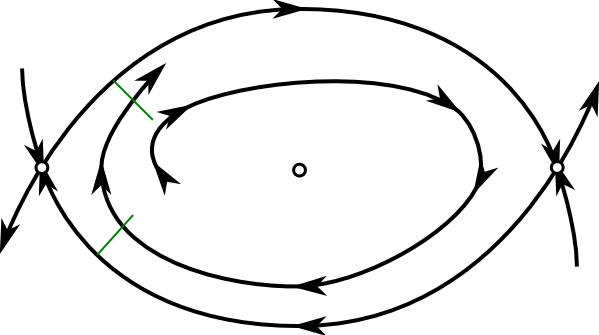 The phase portrait of the Bowen example (see Пример Боуэна for details). Render of file:Bowen example (heteroclinic attractor).svg (created due to incorrect automatic rendering)